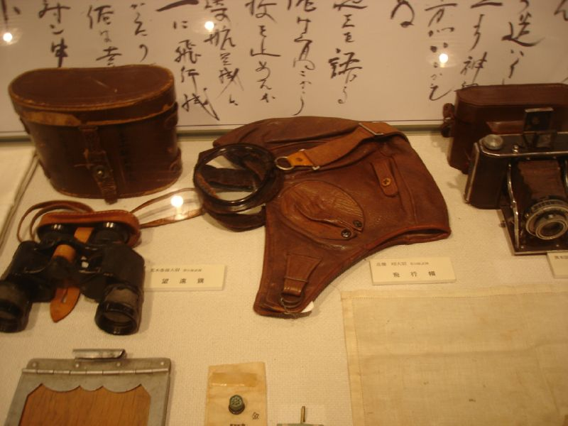 Photo taken in peace museum Chiran, Kagoshima, Japan.